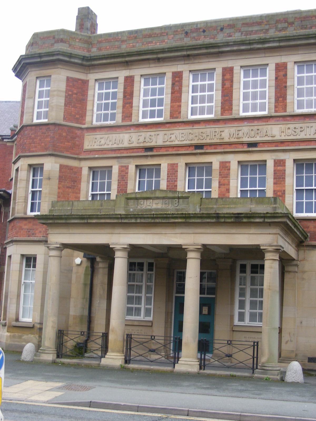 The Old Memorial Hospital frontage of the building that now houses the Art and Multi-Media Depts, and the College Gallery, of Yale College of Wrexham